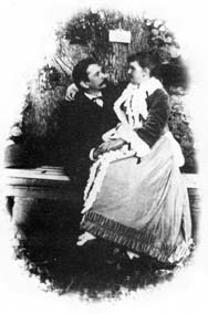 Leopold von Sacher-Masoch and Hulda Meister. Leopold von Sacher-Masoch (1836–1895) - Austrian writer and journalist, who gained renown for his romantic stories of Galician life. The term masochism is derived from his name.